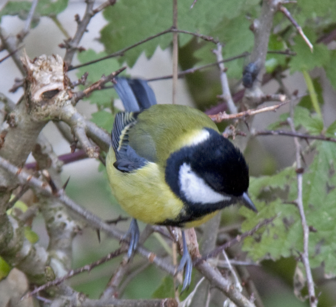 Great Tit